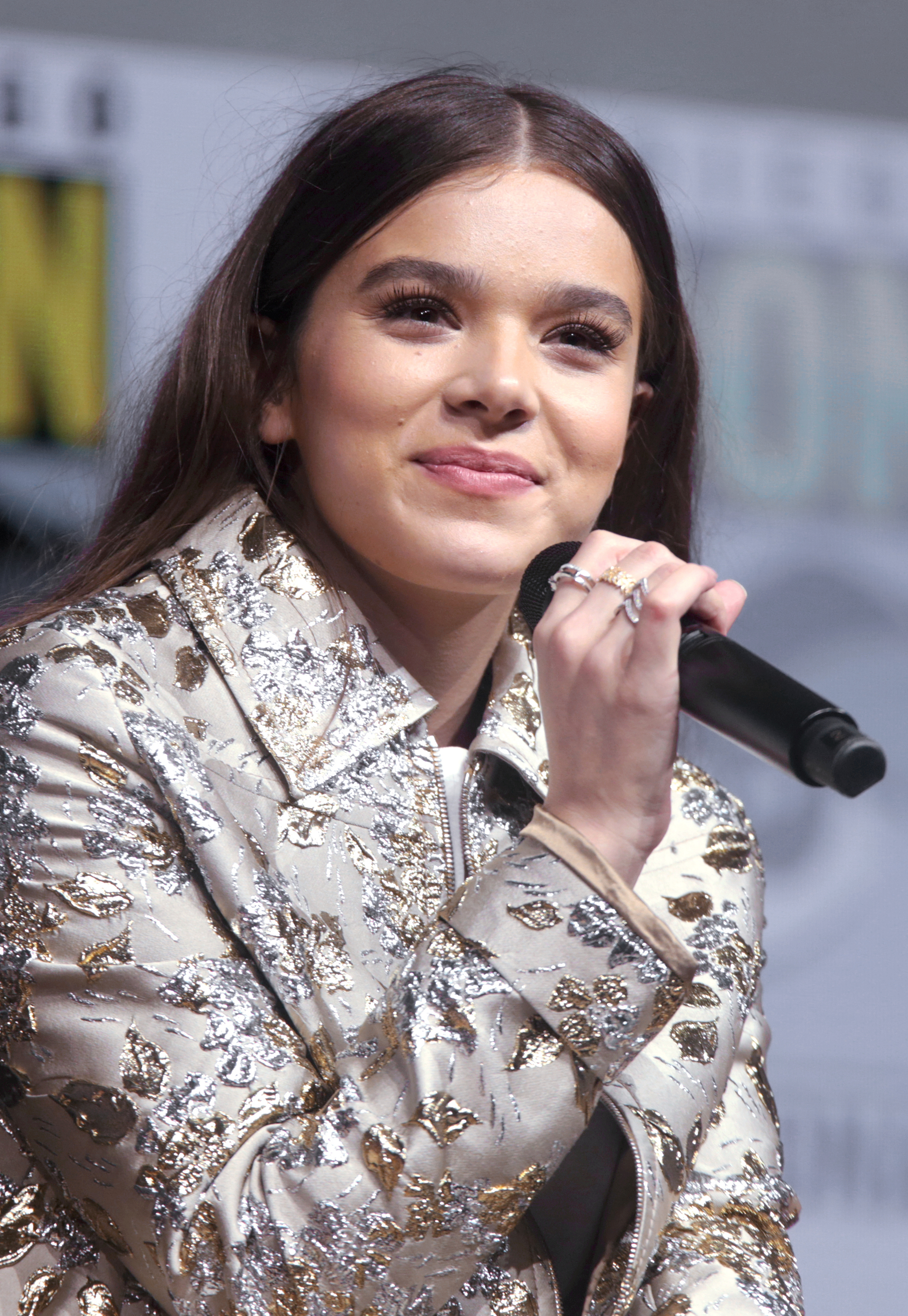 Hailee Steinfeld speaking at the 2018 San Diego Comic-Con International in San Diego, California.